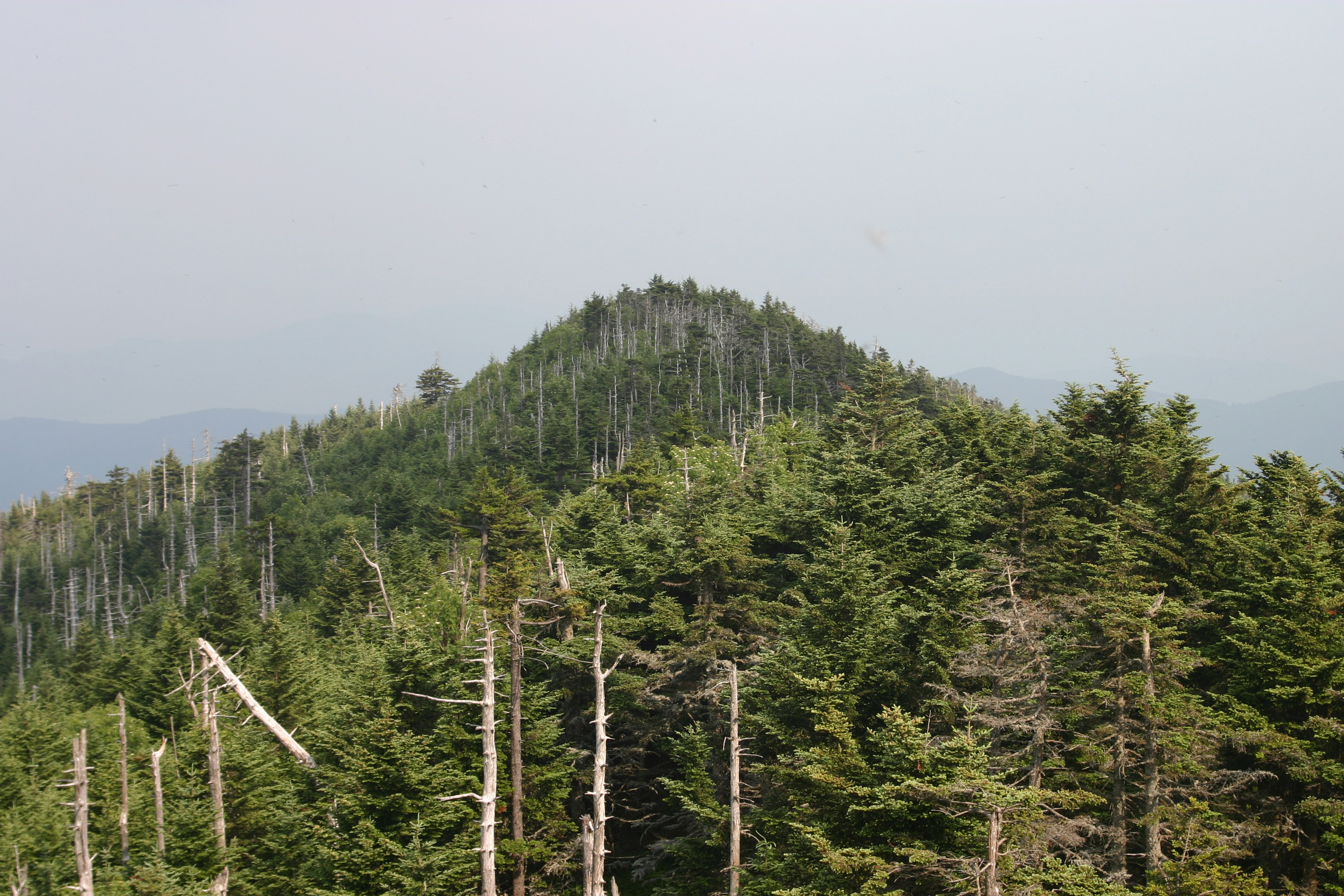 View from the Mount Mitchell State Park observation tower at the summit of Mount Mitchell in the Appalachian Black Mountains of western North Carolina, U.S. Damage to the Southern Appalachian spruce-fir forest is clearly visible. These spruce-fir forests in subalpine regions of the Appalachian Mountains have been damaged by introduced pests, principally the woolly adelgid, and 'acid rain' precipitation.